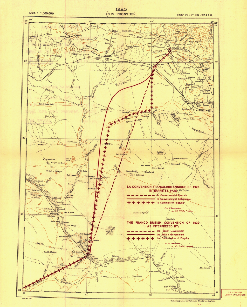 A map showing the territory divisions of syria